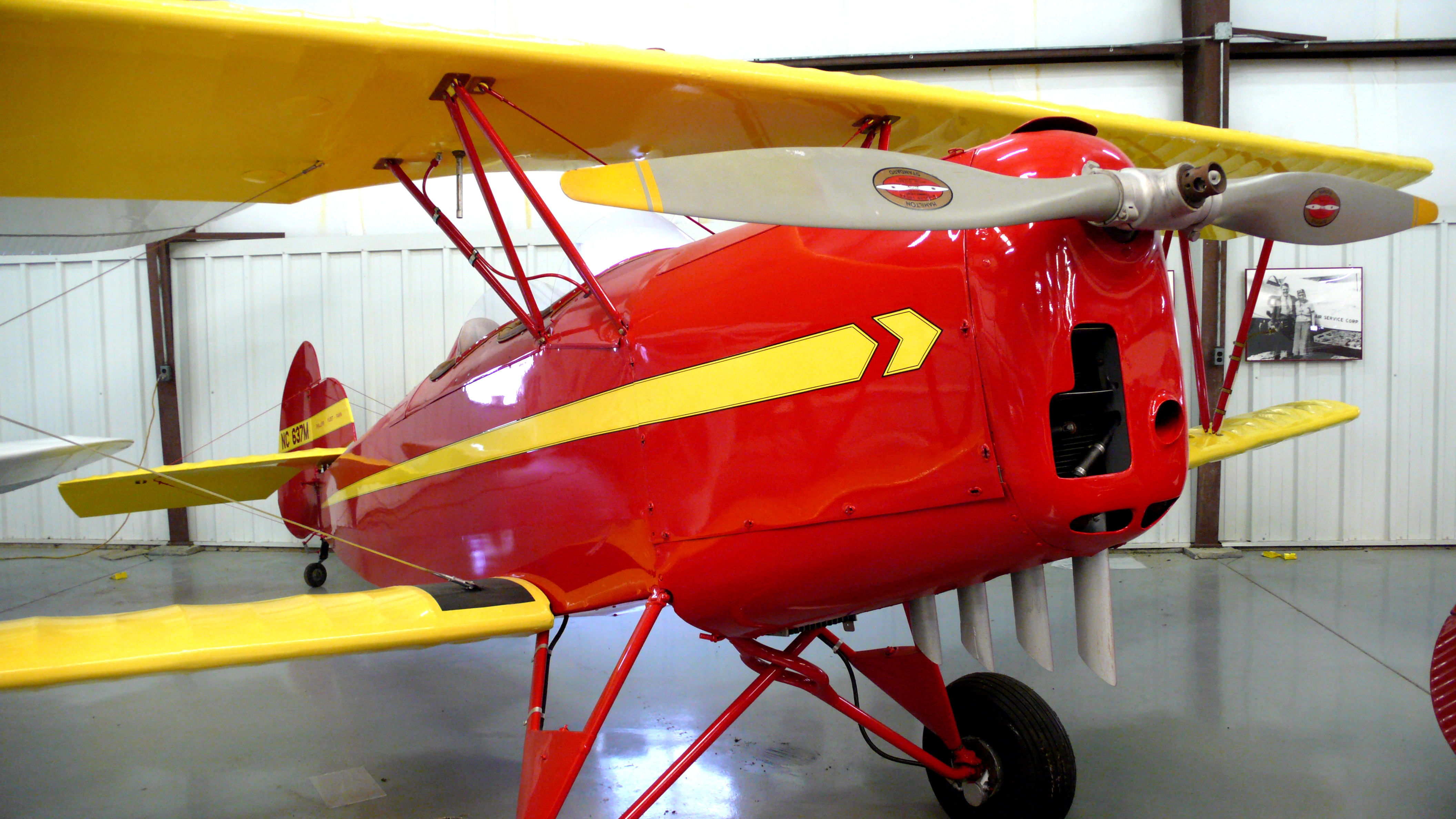 Consolidated Aircraft Company, Fleet Model 7